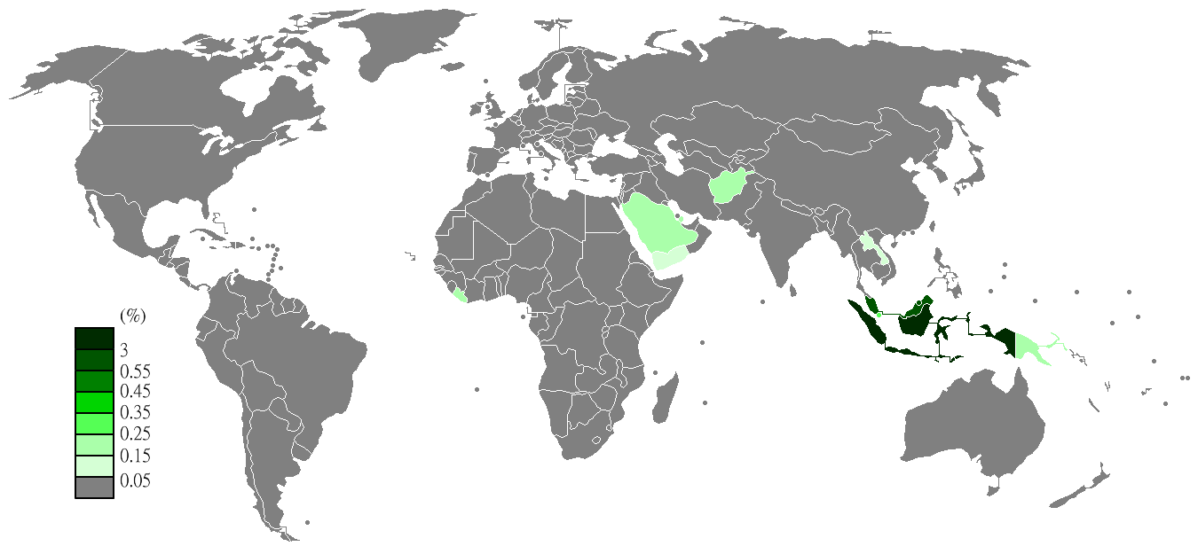 Indonesian Wikipedia Page view ratio by country 201110-201209